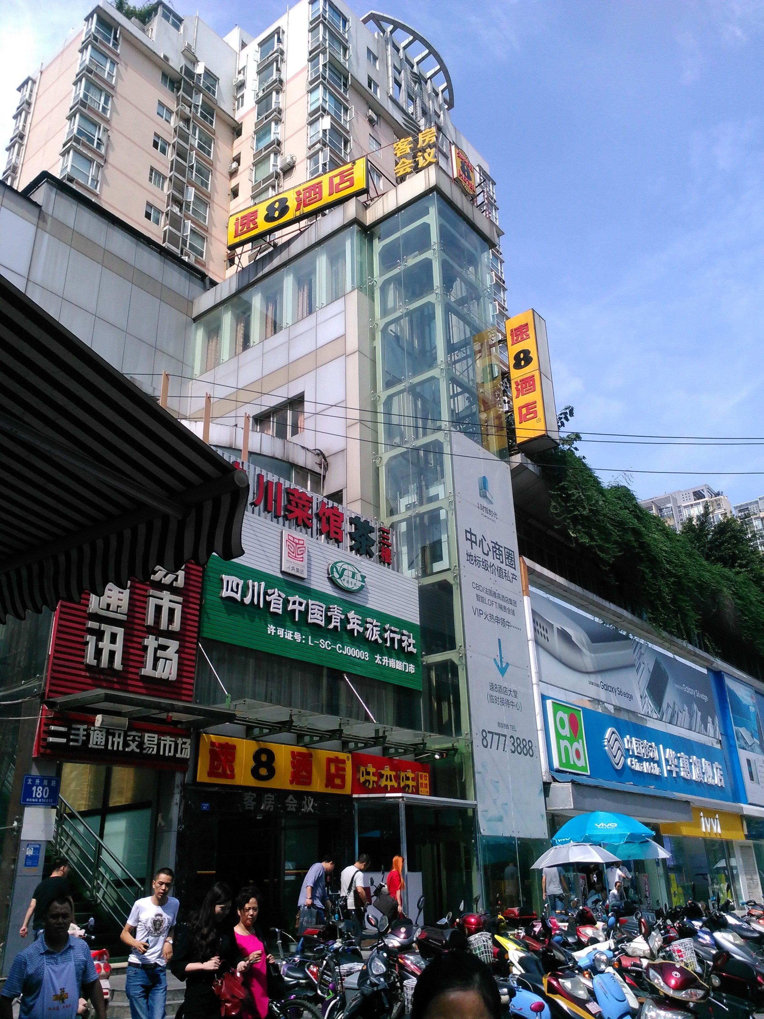 Super 8 Motel Chengdu